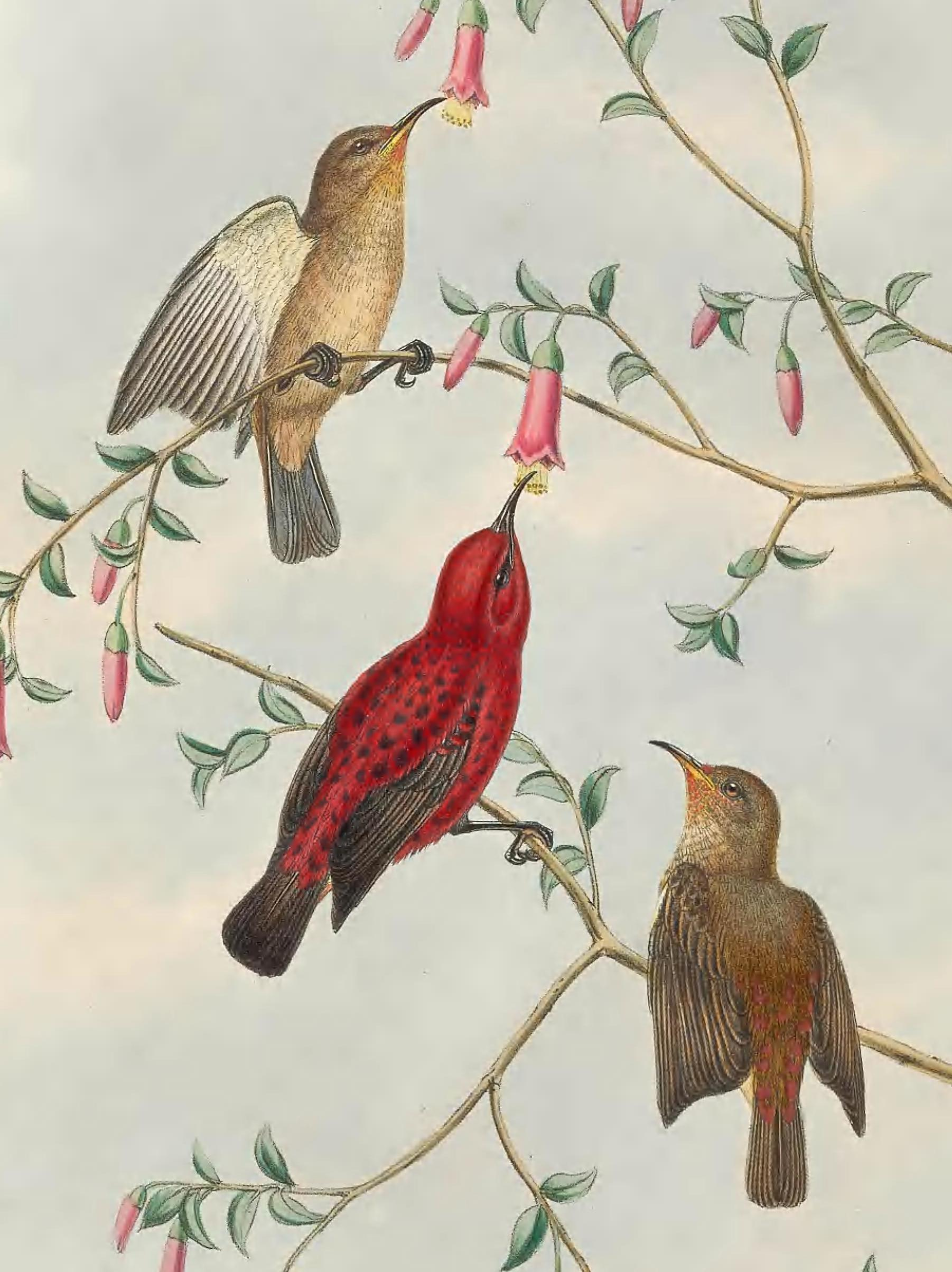 Myzomela wakoloensis in The birds of New Guinea and the adjacent Papuan islands, including many new species recently discovered in Australia. v.3 (Plate 64).